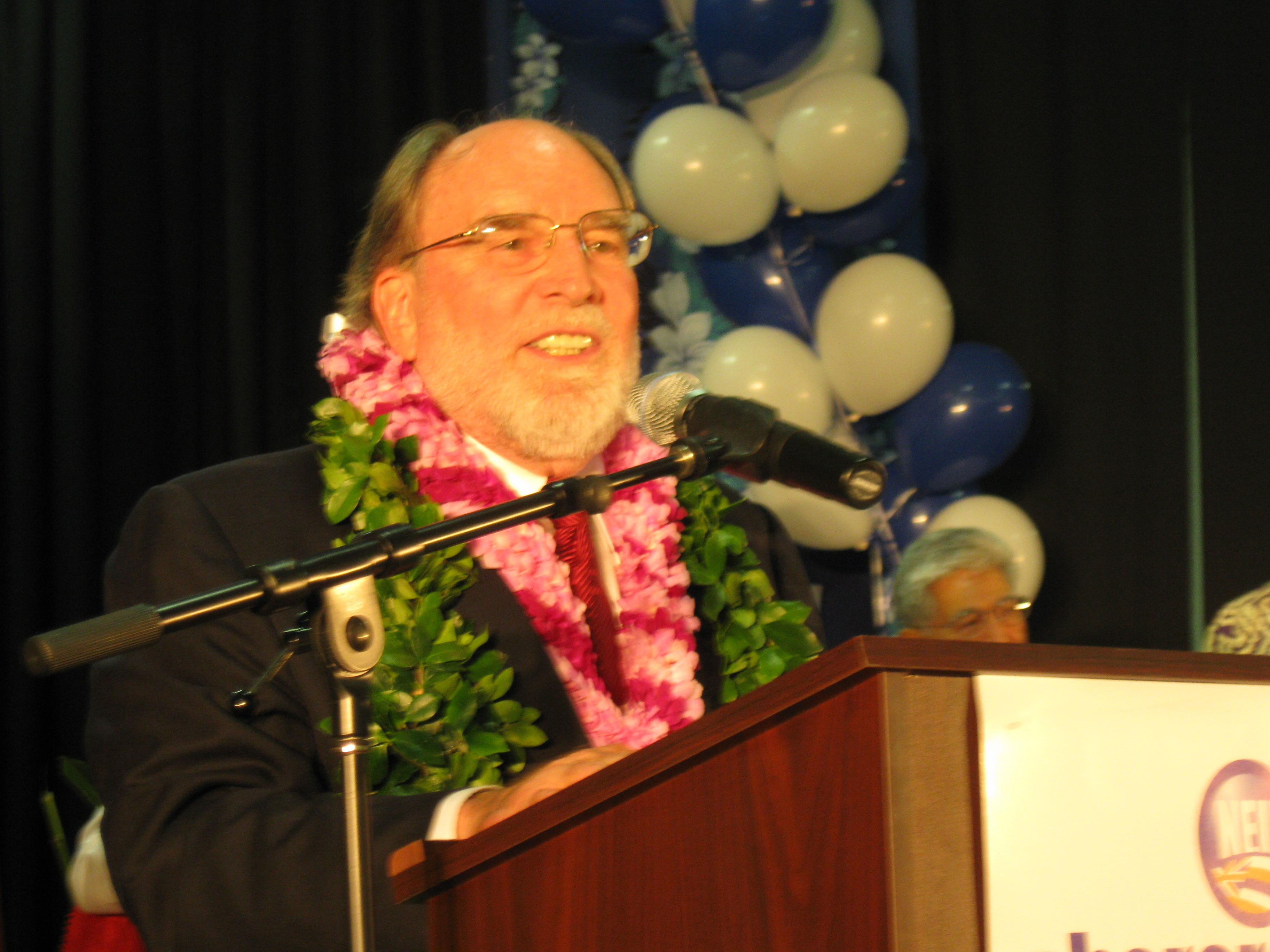 Scenes from Abercrombie Election HQ on Nov. 2, 2010